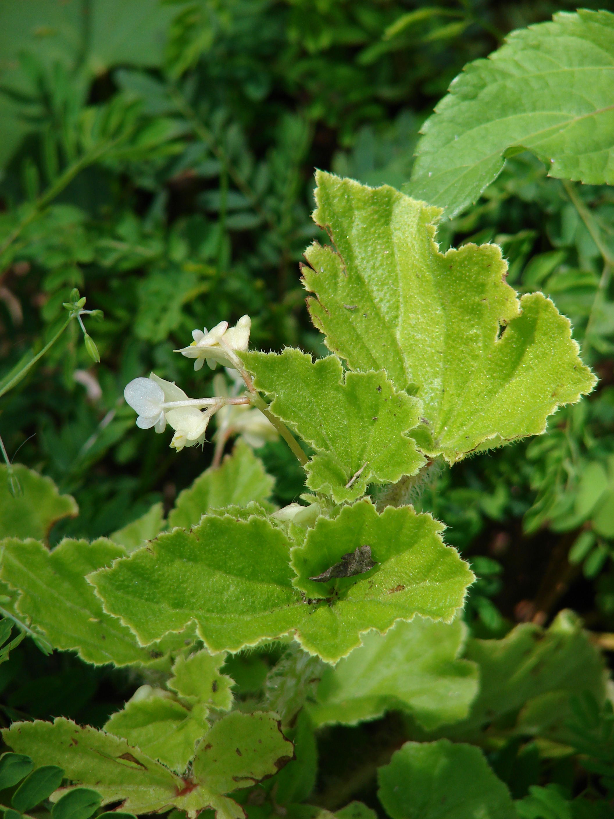 Begonia hirtella (habit). Location: Maui, Hana